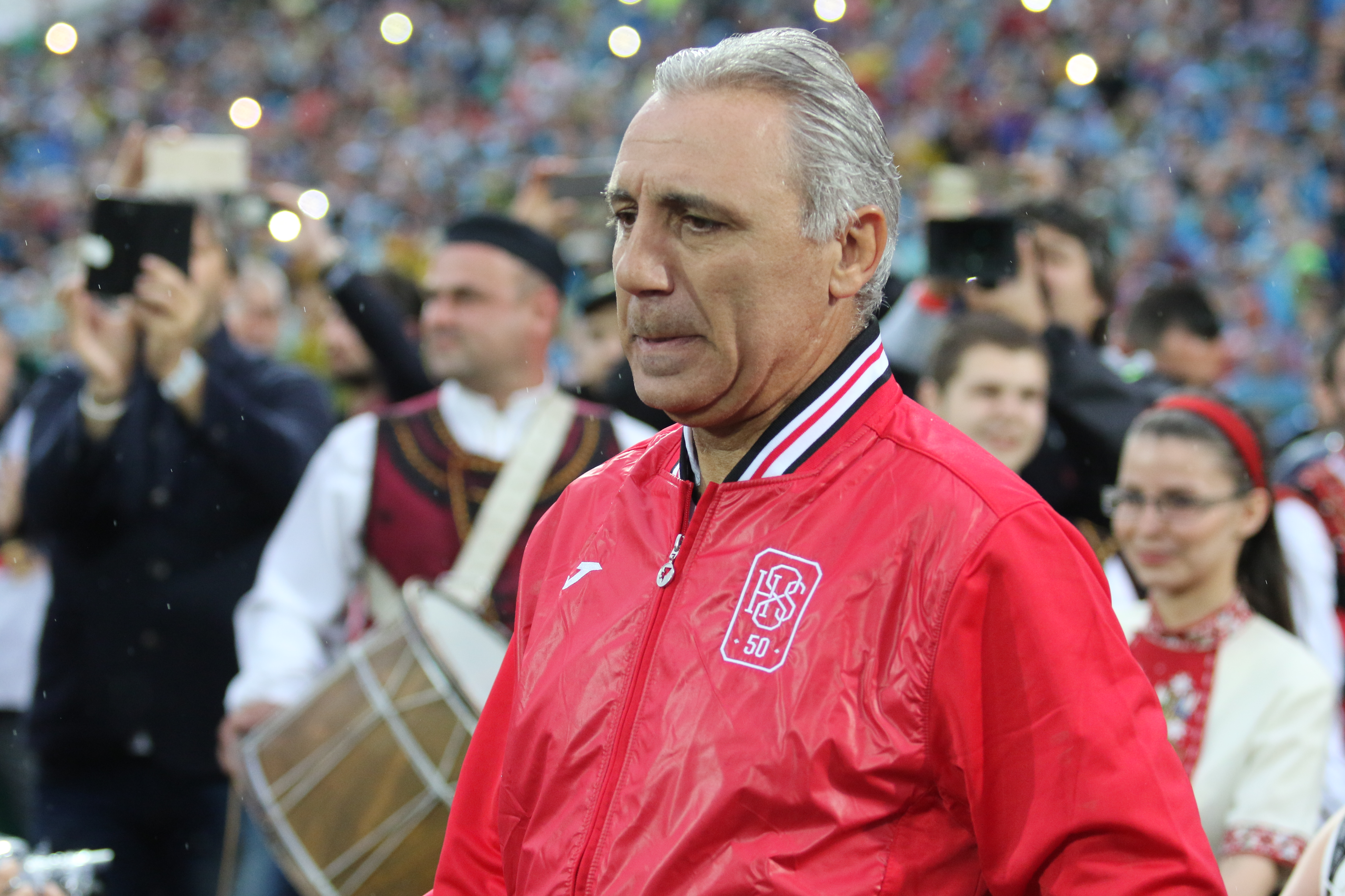 Hristo Stoichkov - former bulgarian soccer player